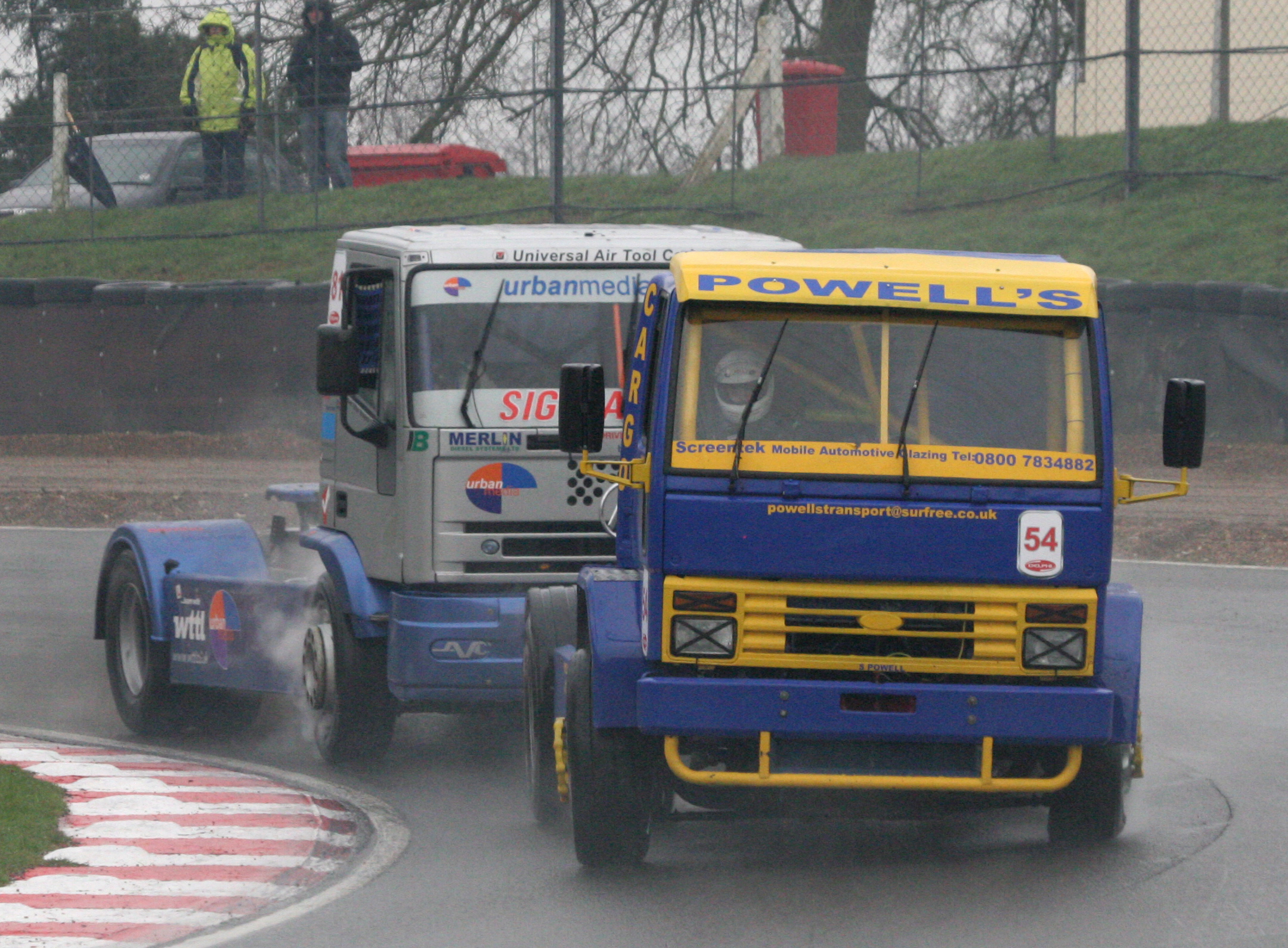 Truck racing